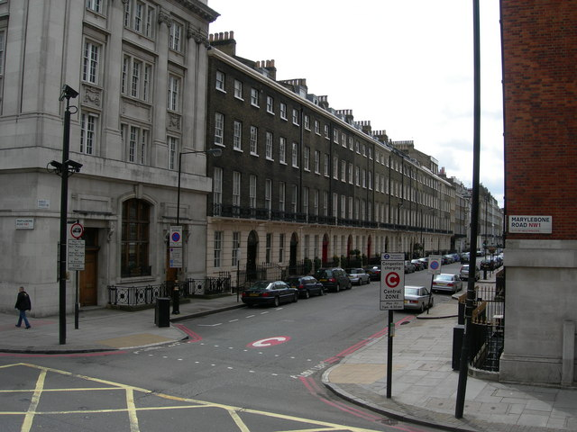 Harley Street. This unremarkable looking street is the centre of Britain's private medical consulting industry.